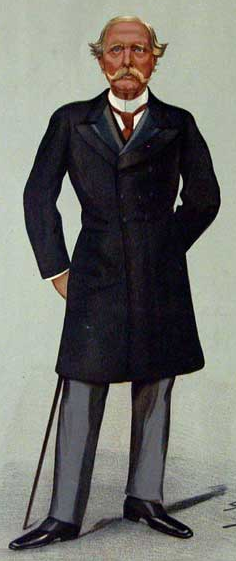 Caricature of Charles Brooke, Rajah of Sarawak. Caption read "Sarawak".